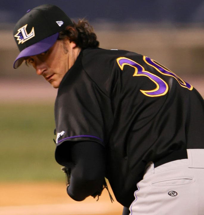 Gary Majewski looks the runner back to first base. Louisville Bats at Scranton/Wilkes-Barre Yankees, April 10, 2008. 03:14, 1 May 2008 . . BubbaFan . . 685×721 (52 KB)